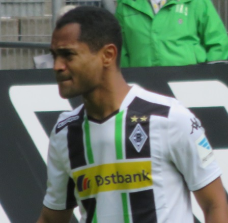 Raffael 2015